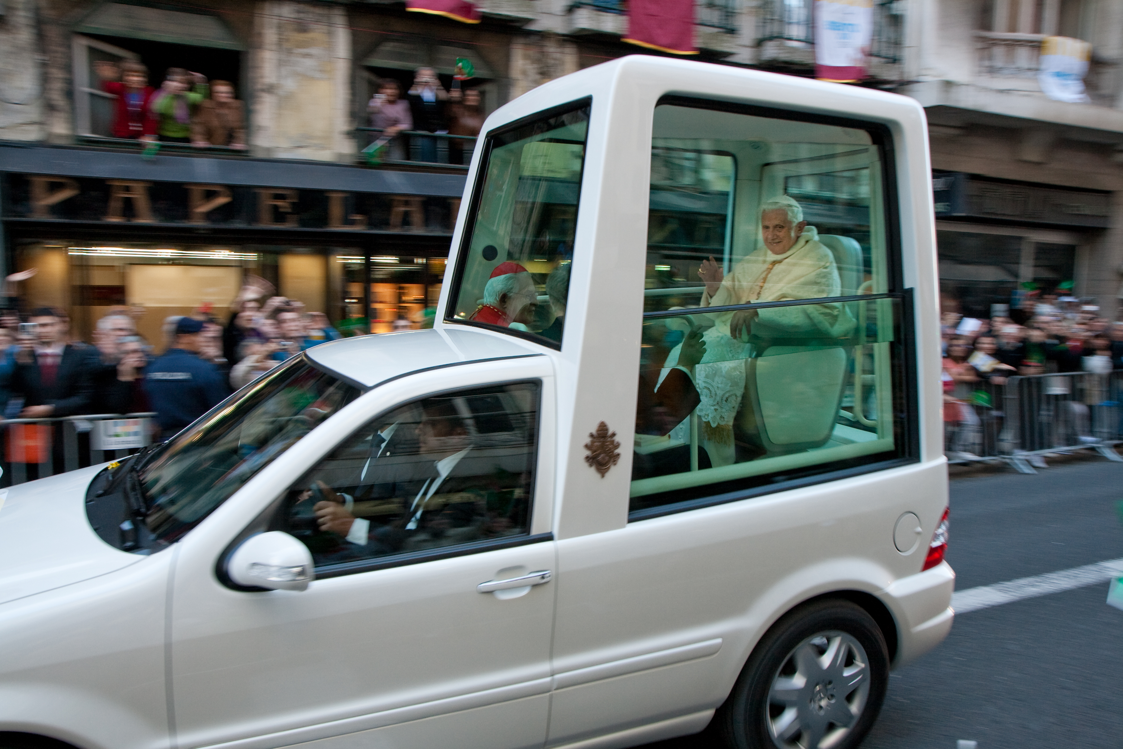 Pope Benedict XVI - Papa Bento XVI - Paus Benedictus 16 - Lisboa Lissabon Portugal 2010 Creative Commons Tried to take a 1/50 drag-shot here, and it worked quite well i think :)